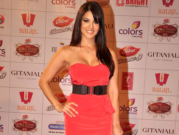 Sunny Leone at the Global Indian Film & Television Honors 2012